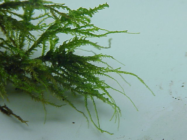 Species: Anomodon attenuatus Family: ' Image No. 1